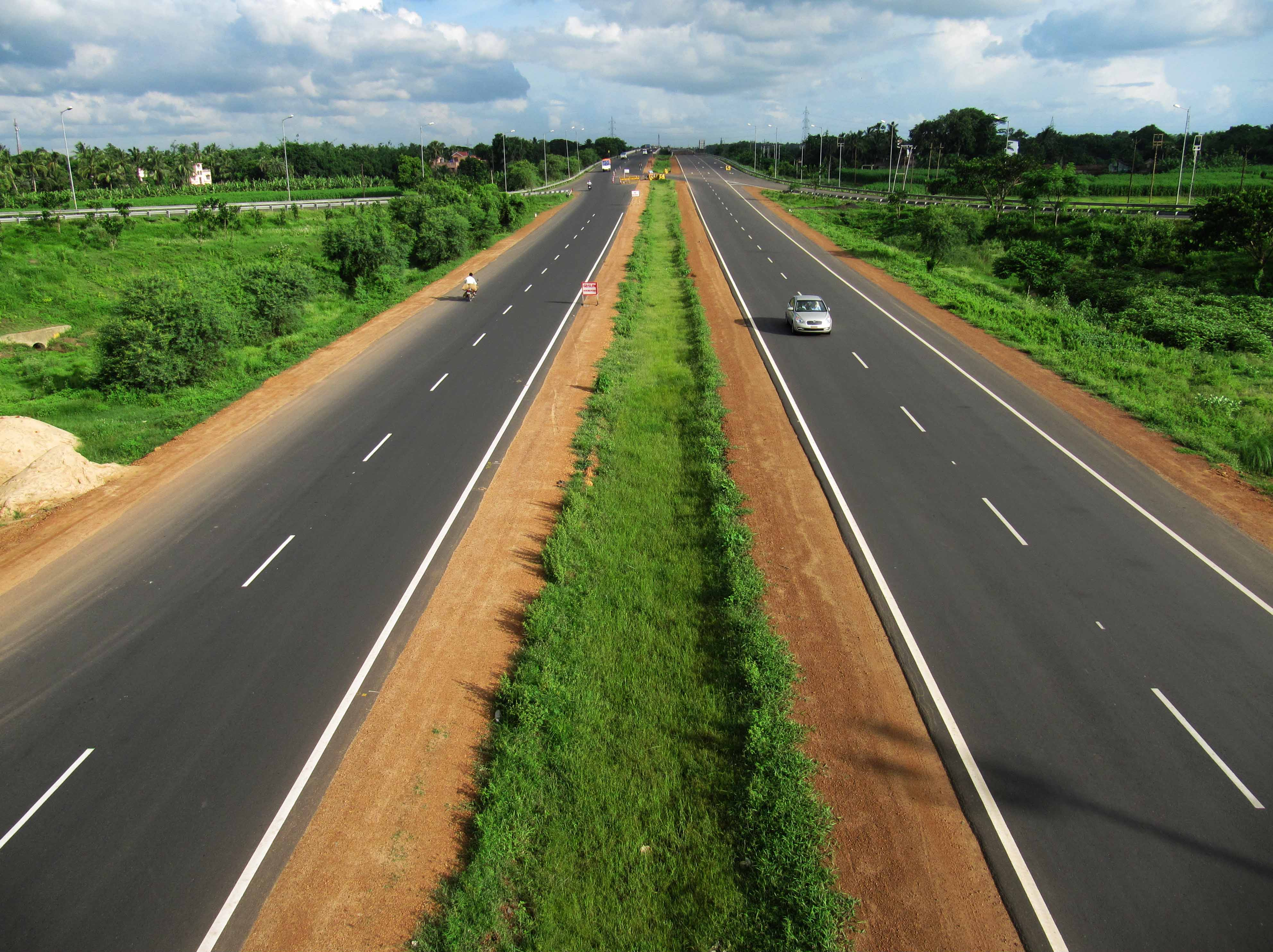 Durgapur Xpressway